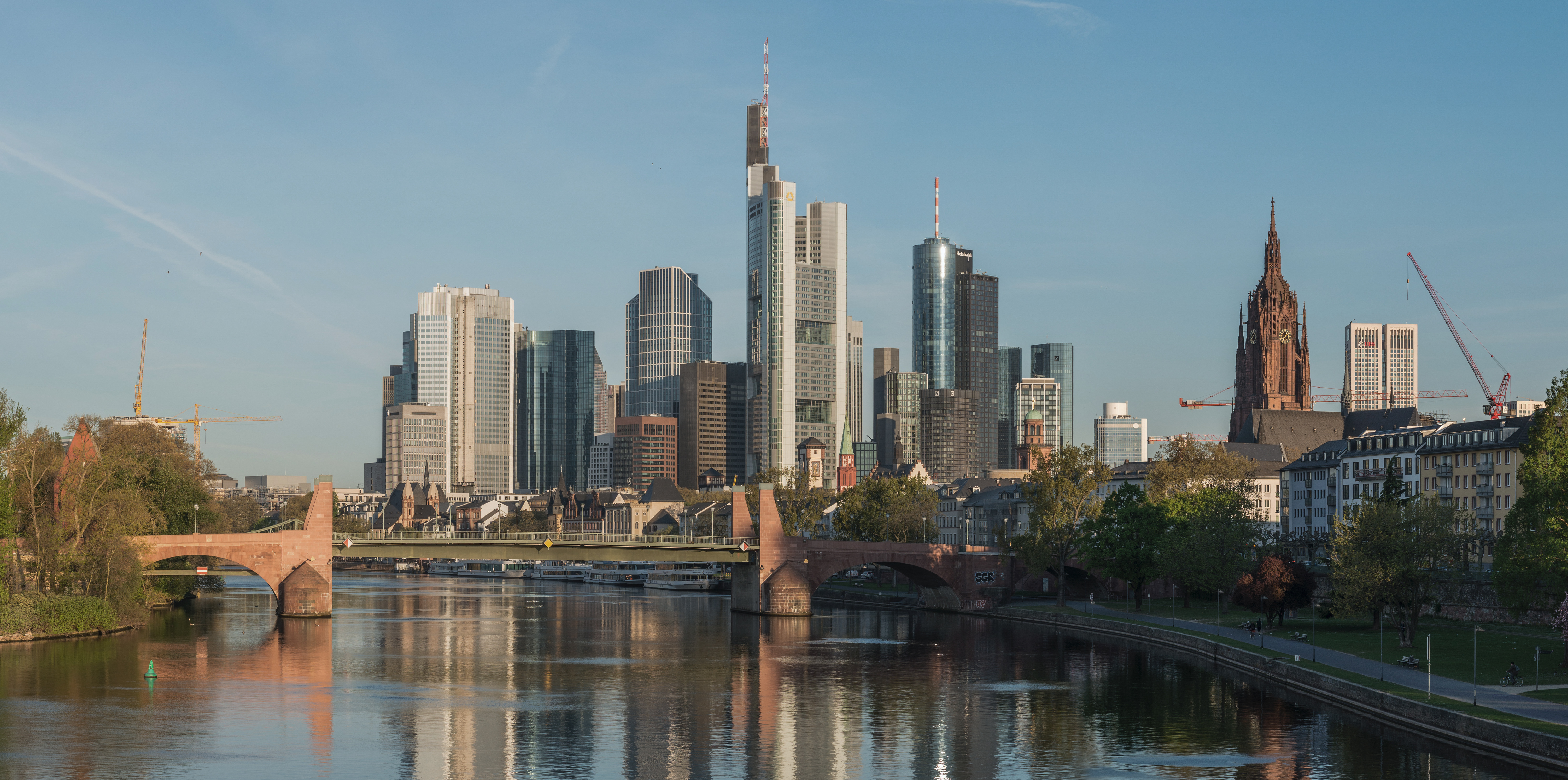 A view of the Frankfurt Skyline as seen from Ignatz Bubis Bridge